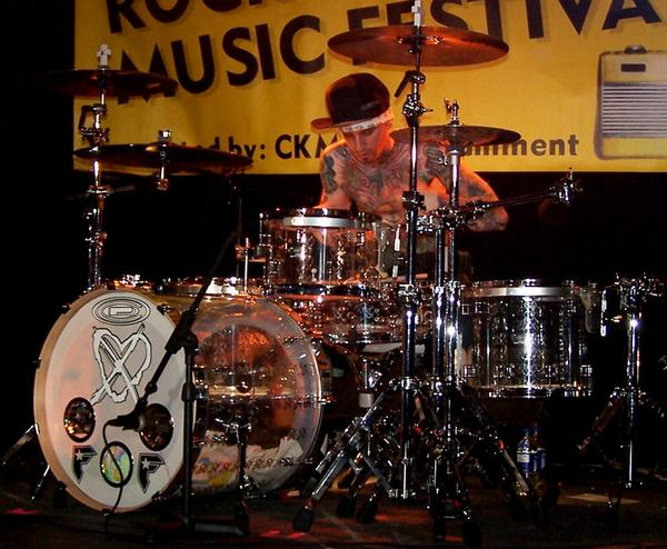 not Travis, just some tool poser wannabe with no originality. THIS IS NOT TRAVIS!!!!!!!!!!!!!! yr eint Trav MAN THIS GUYS A JOKE!